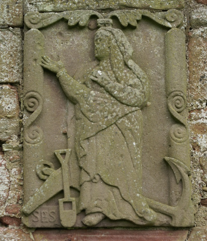 Edzell Castle, Angus, Scotland. Spes.